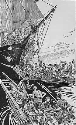 Chinese pirate boats attacking a merchant ship, circa 1800s.